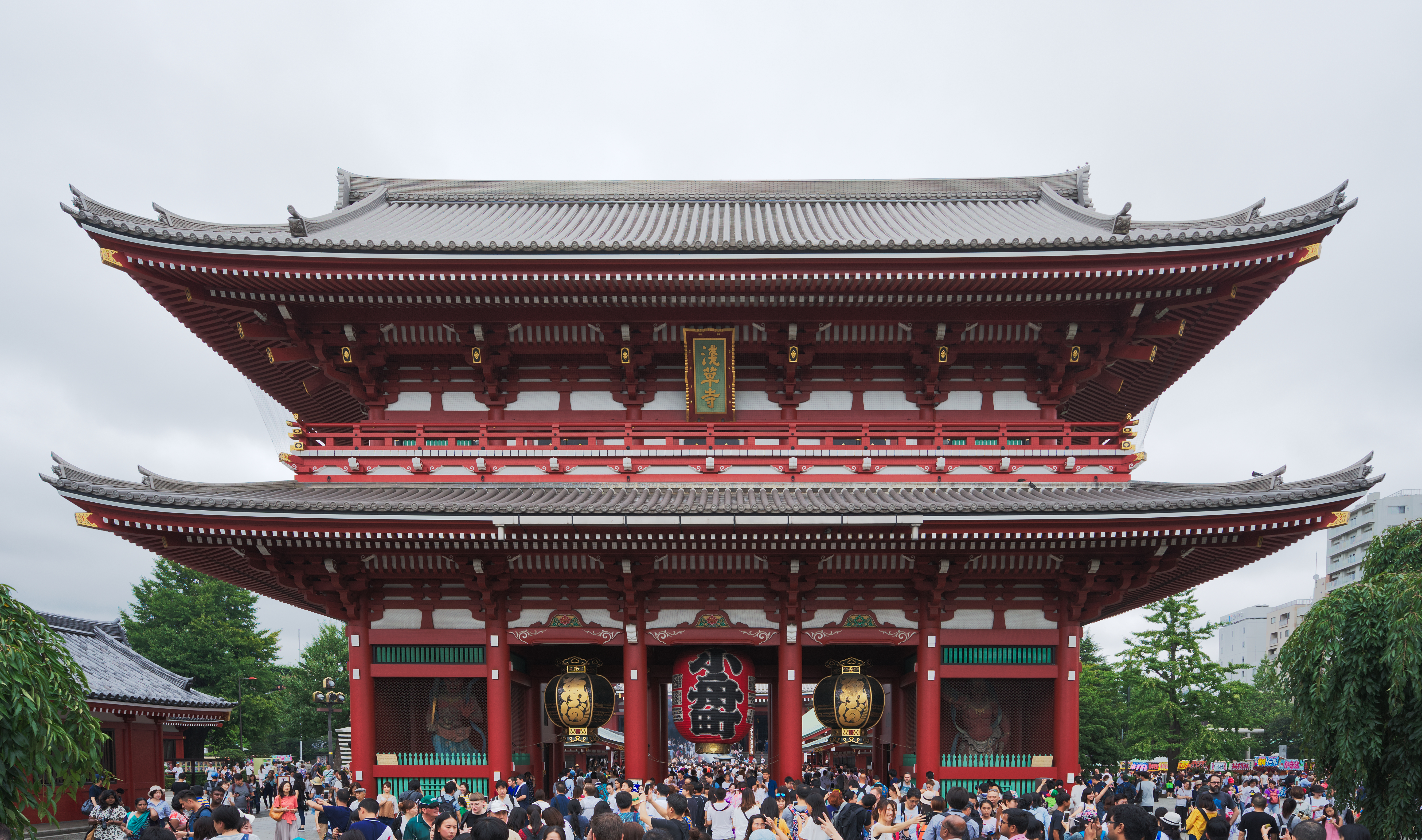 The Hōzōmon is an entrance gate leading to the Sensō-ji in Asakusa, Tokyo.